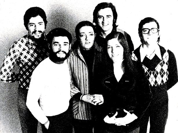 Trade ad for Mocedades' single "Eres tú".